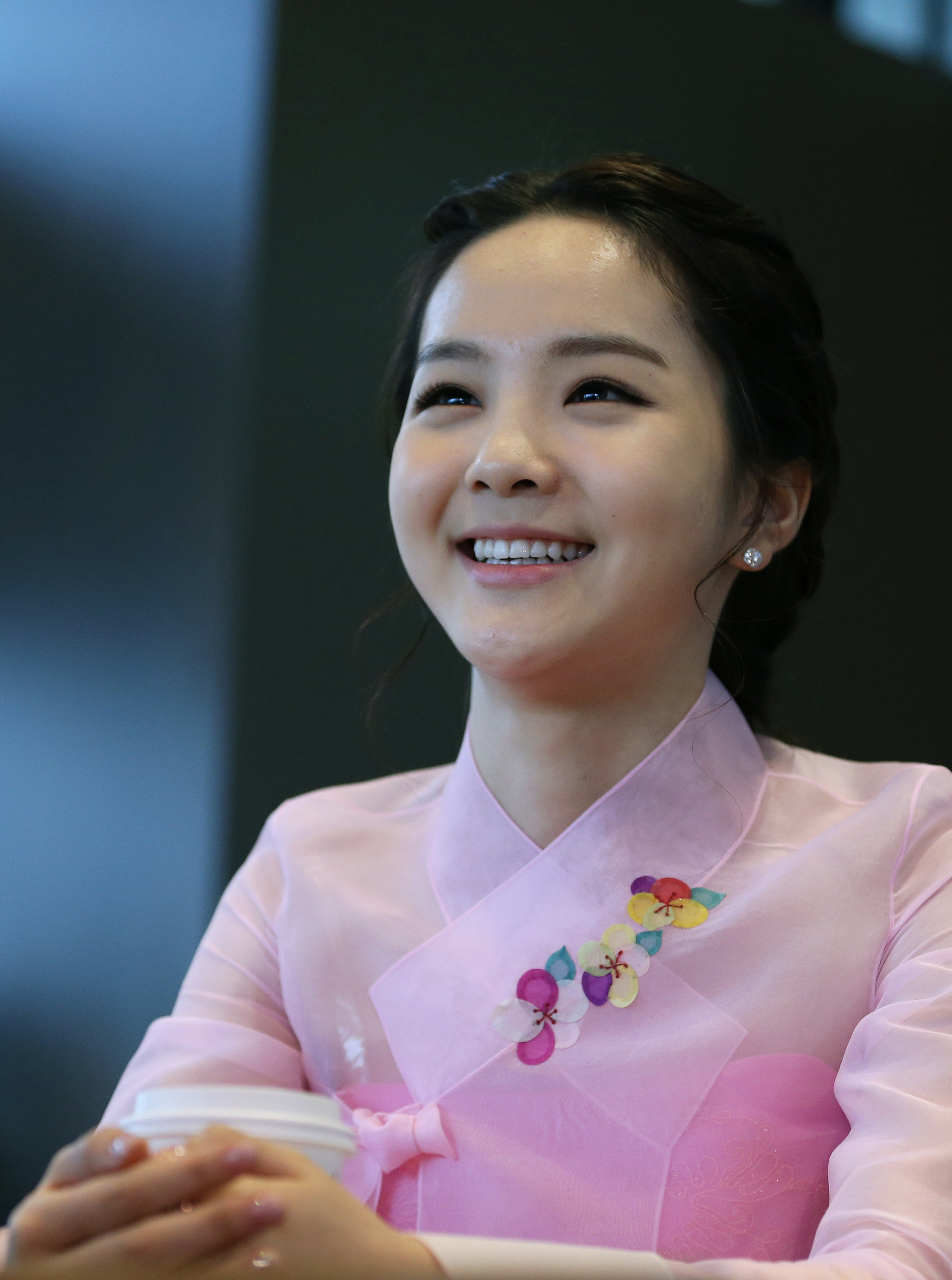 ‘Gugak Star’ Song So-hee at the National Museum of Korean Contemporary History, Seoul